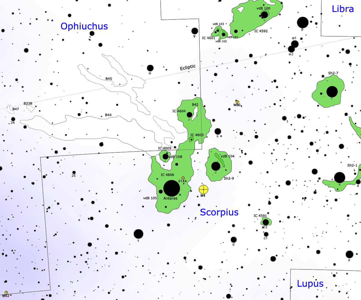 Map of the Rho Ophiuchi Cloud